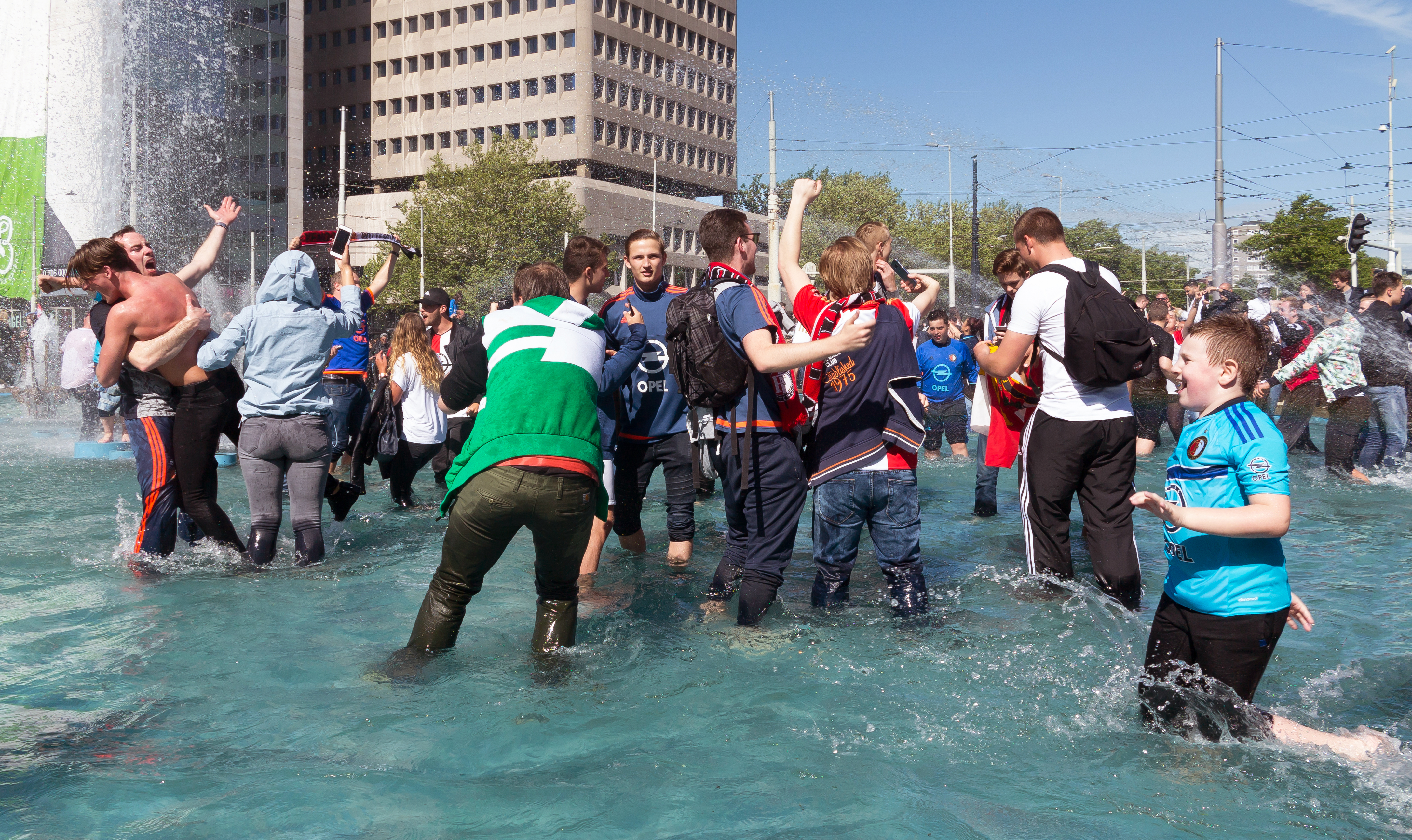 Rotterdam, the Hofplein fountain - Feyenoord-supporters are celebrating the national championship